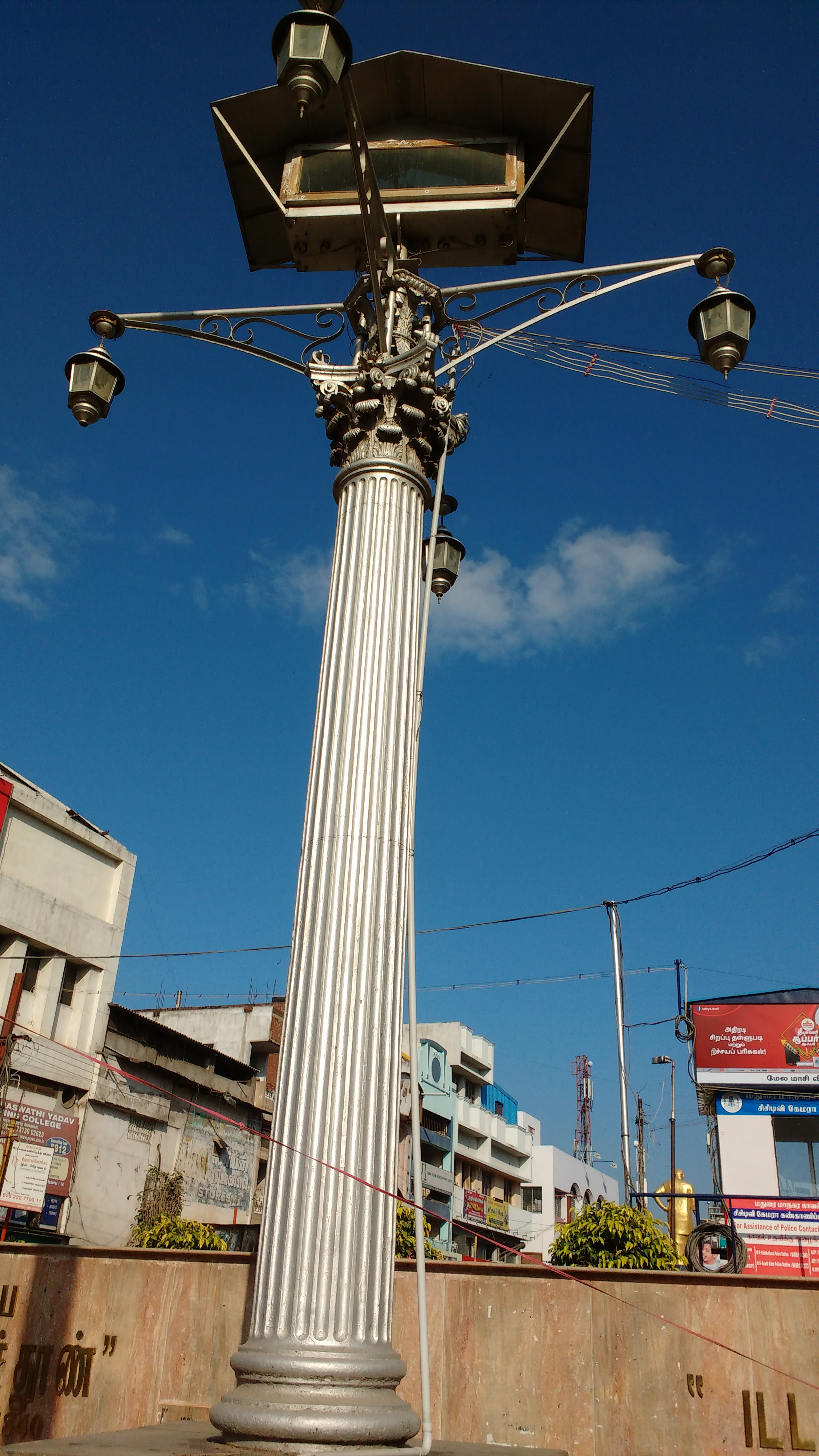 Light tower erected during British Raj in Madurai City